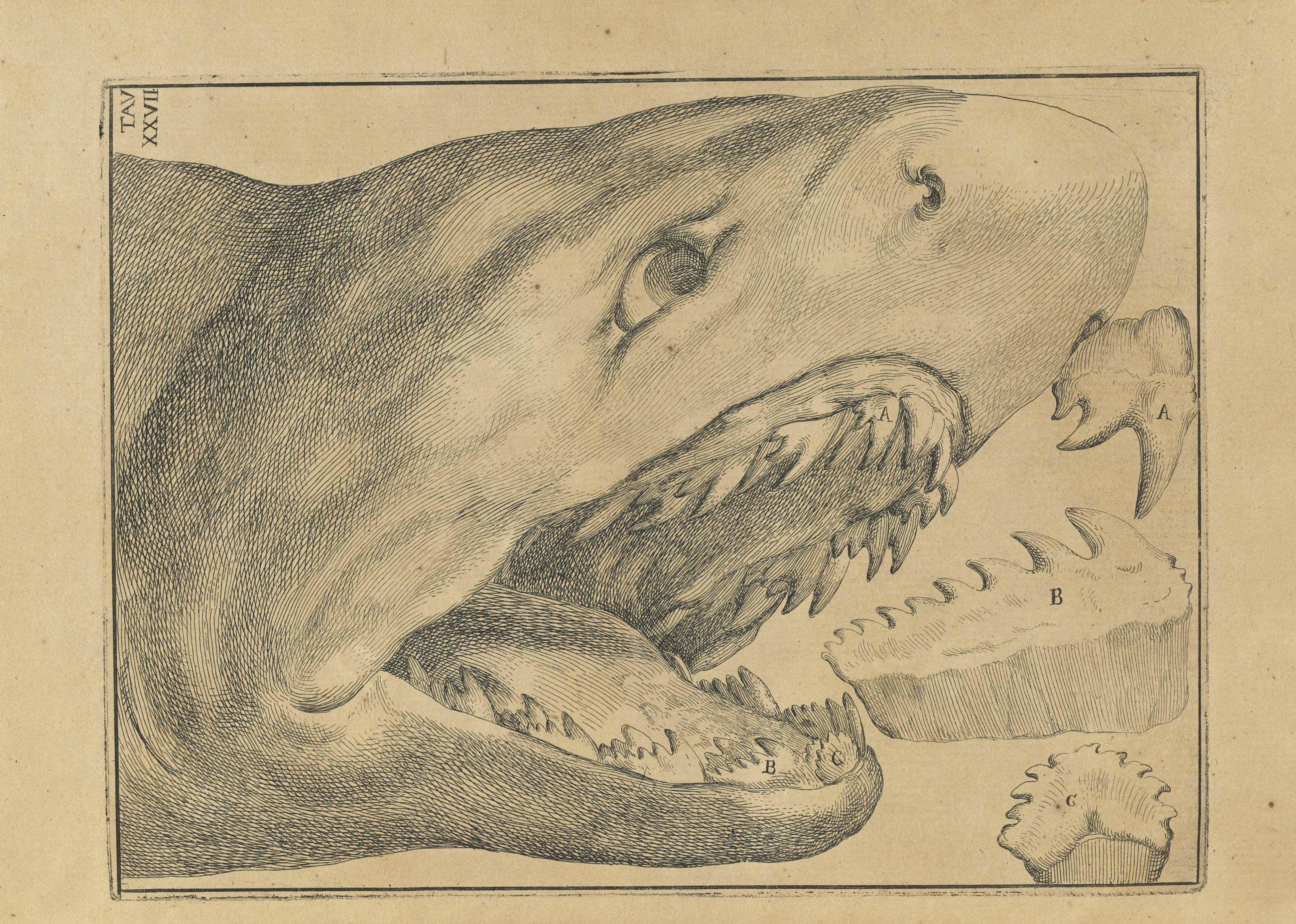 The image depicts some shark from Hexanchidae family, probably, Hexanchus